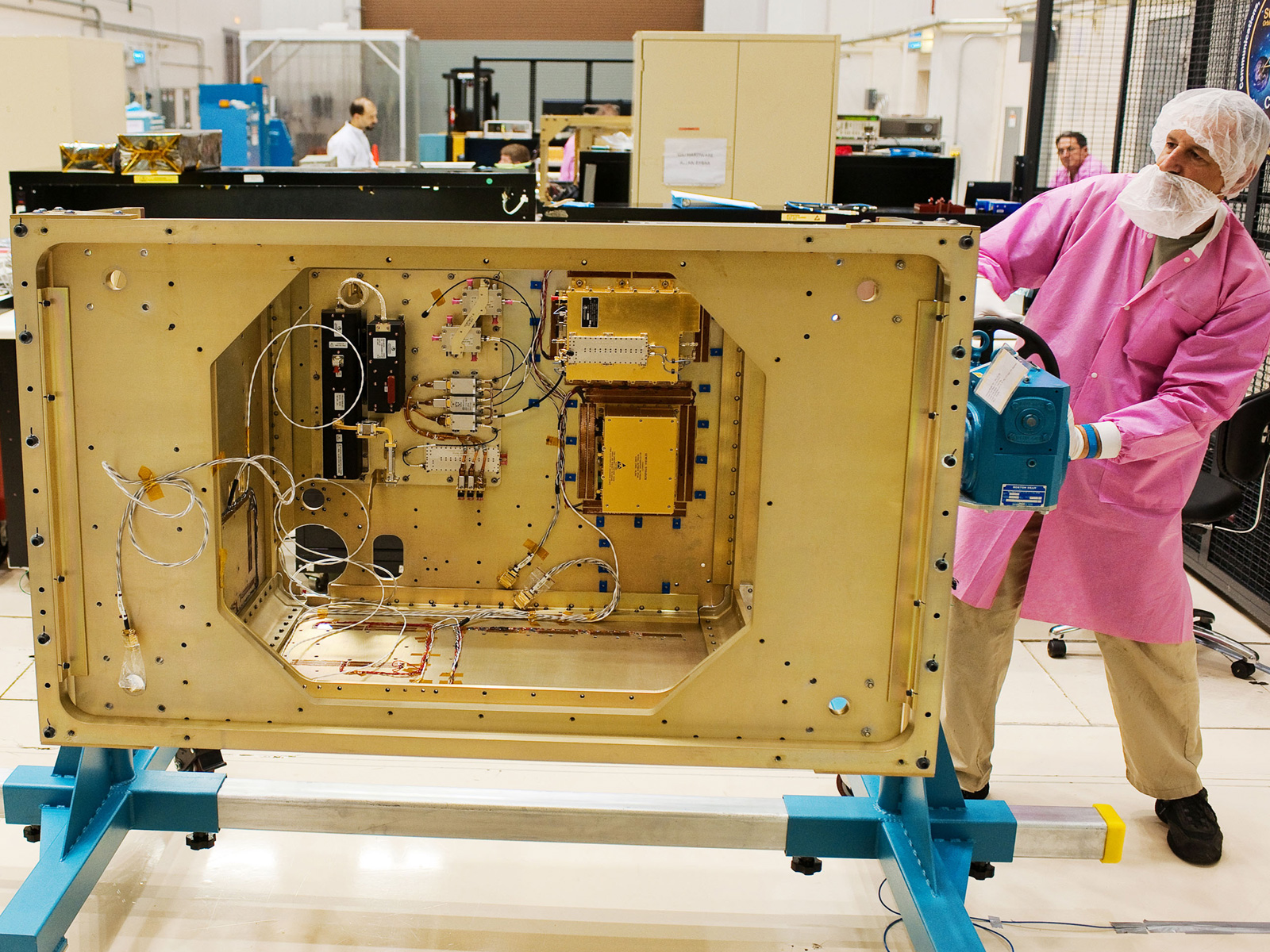 In this image from late 2010, software engineers worked in the background as Glenn Research Center technician, Joe Kerka, rotated the SCaN Testbed flight enclosure assembly. The Space Communications and Navigation, or SCaN Testbed will be launched on a Japanese H–IIB Transfer Vehicle and installed on the International Space Station and will provide an on-orbit, adaptable software-defined radio facility with corresponding ground and operational systems. This will permit mission operators to remotely change the functionality of radio communications and offer the flexibility to adapt to new science opportunities and recover from anomalies within the science payload or communication system. This effort is sponsored by the SCaN Program as part of the , CoNNeCT, or Communications, Navigation, and Networking reConfigurable Testbed Project led by Glenn Research Center. The Glenn Research Center will host a media event at 10:30 am on Friday, Feb. 10, to showcase the SCaN Testbed before it is shipped to Japan.